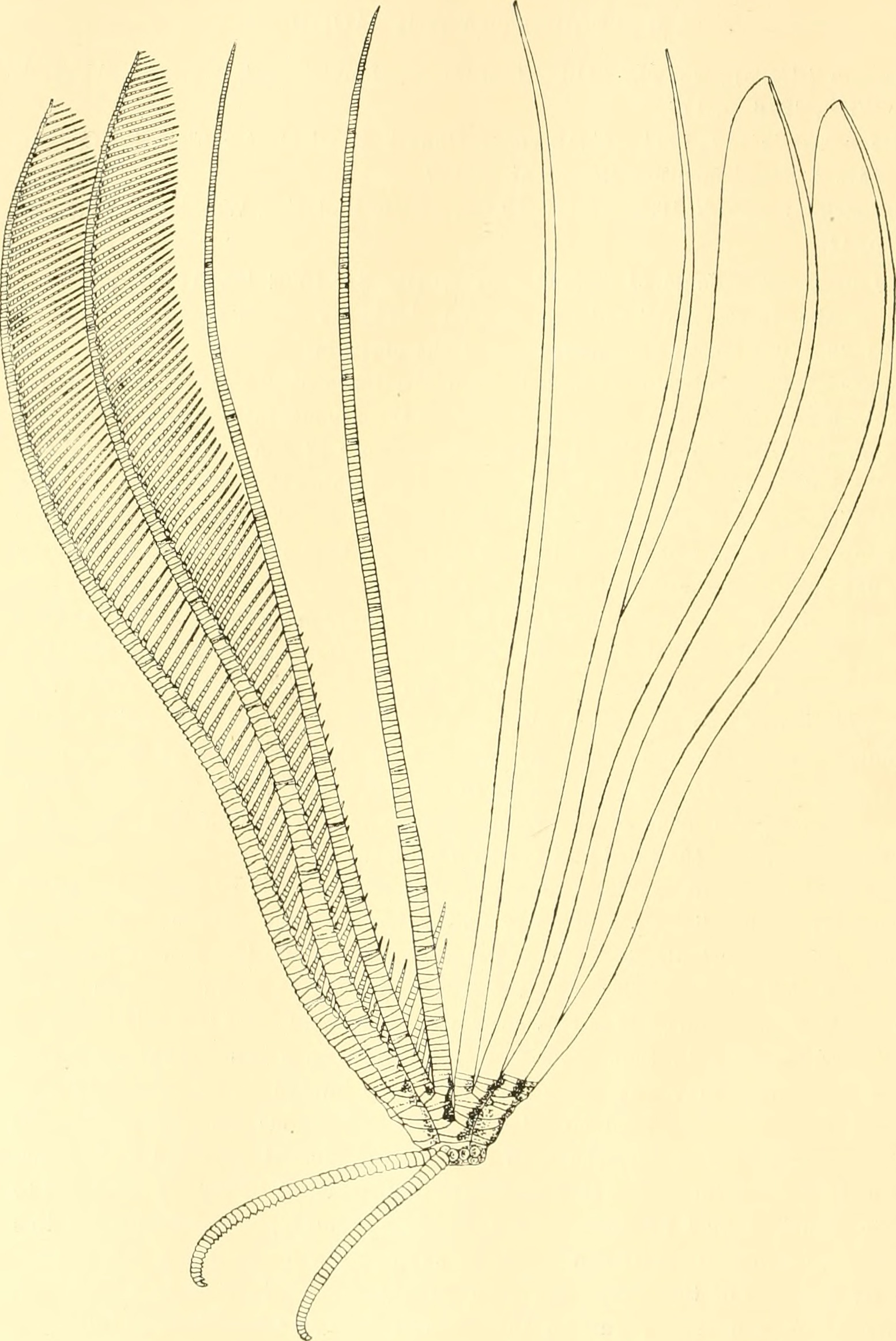 Title: The crinoids of the Indian Ocean Year: 1912 (1910s) Authors: Clark, Austin Hobart, 1880-1954; Indian Museum Subjects: Crinoidea Publisher: Calcutta, Printed by order of the Trustees Text Appearing Before Image: 122 ECHINODERMA OF THE INDIAN MuSEUM, PART VII. Text Appearing After Image: Fig. 9.—Heterometra reynaudii. Lateral view of a typical specimen.